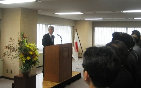 Toshio Ogawa, Minister of Justice, addressed at the Central Government Building No.6 in Chiyoda Ward, Tōkyō Metropolis on January 16, 2012. (For terms of use, see 法務省：法務省ウェブサイトのコンテンツの利用について.)